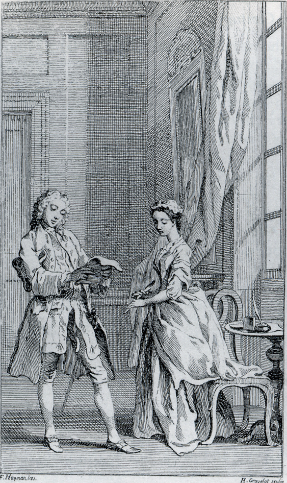 Illustration of Pamela: or, Virtue rewarded. In a series of Familiar Letters from a Beautiful Young Damsel to her Parents by Samuel Richardson (1741)